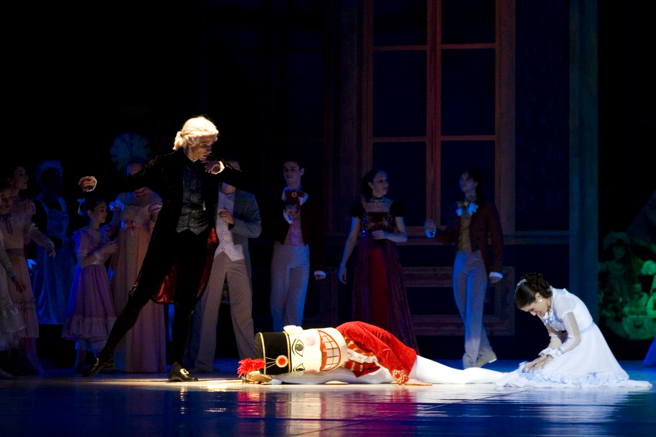 "The Nutcracker" two-act ballet by Pyotr Ilyich Tchaikovsky; The libretto is adapted from E. T. A. Hoffmann's story: "The Nutcracker and the Mouse King"; directed by Eldar Alijev; Ballet of the Serbian National Theatre, Novi Sad, 2011/12; Ivan Đerković, Brankica Vučićević - Nutcracker Doll, Teona Radanović Srpski (latinica): "Krcko Oraščić" balet u dva čina Petra Iliča Čajkovskog; libreto je zasnovan na priči E. T. A. Hofmana: "Ščelkunčik i Kralj miševa", režija: Eldar Alijev; Balet SNP-a, Novi Sad, 2011/12; Ivan Đerković, Brankica Vučićević - lutak, Teona Radanović Српски (ћирилица): "Крцко Орашчић" балет у два чина Петра Илича Чајковског; либрето је заснован на причи Е. Т. А. Хофмана: "Шчелкунчик и Краљ мишева", режија: Елдар Алијев; Балет СНП-а, Нови Сад, 2011/12; Иван Ђерковић, Бранкица Вучићевић - лутак, Теона Радановић